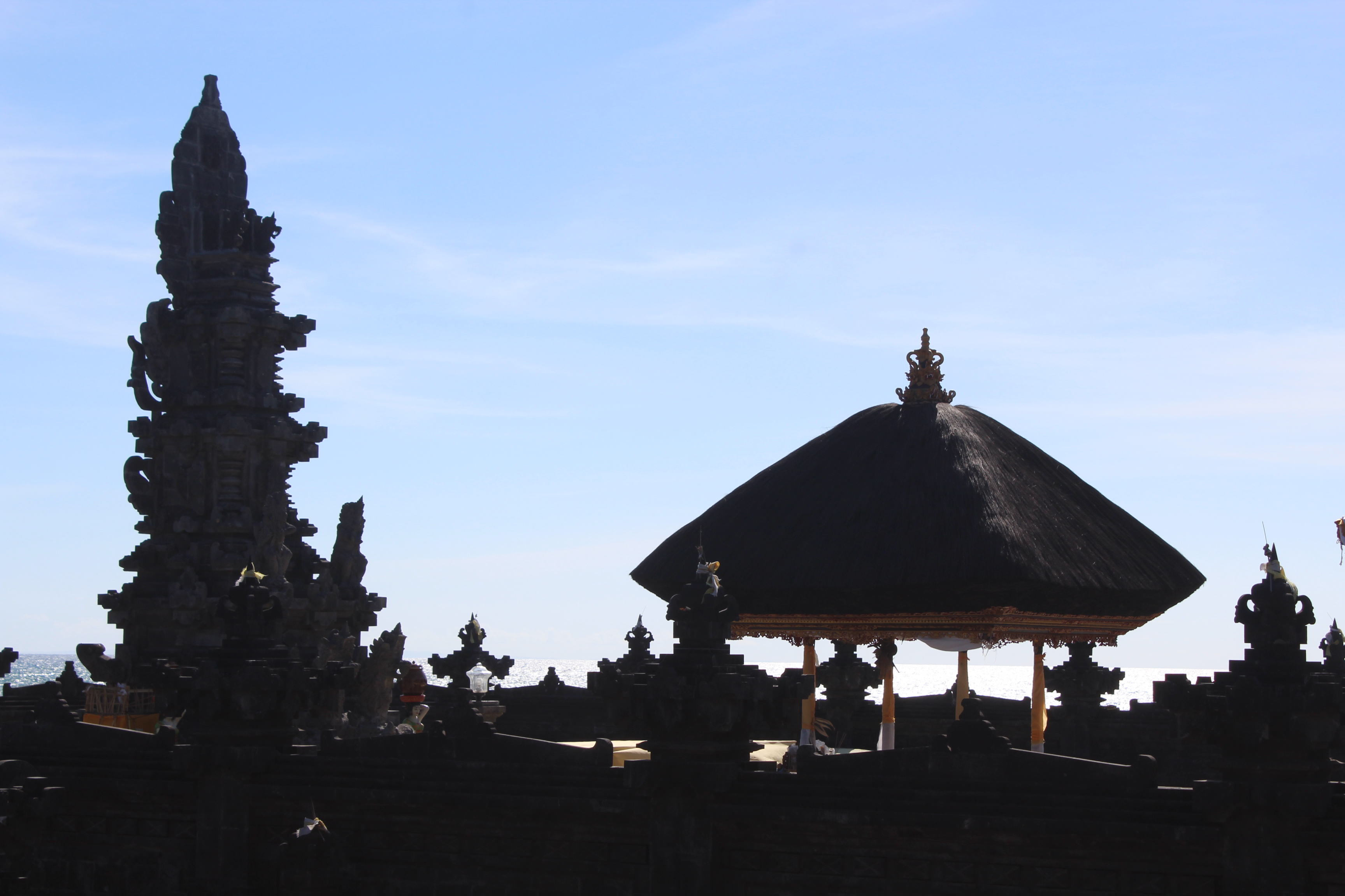 Foto yang diambil di Tanah Lot, Bali